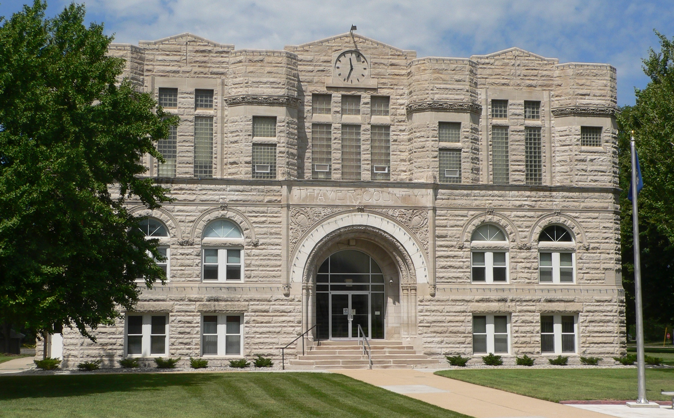 Thayer County Courthouse in Hebron, Nebraska; seen from the east. The building was constructed in 1901.